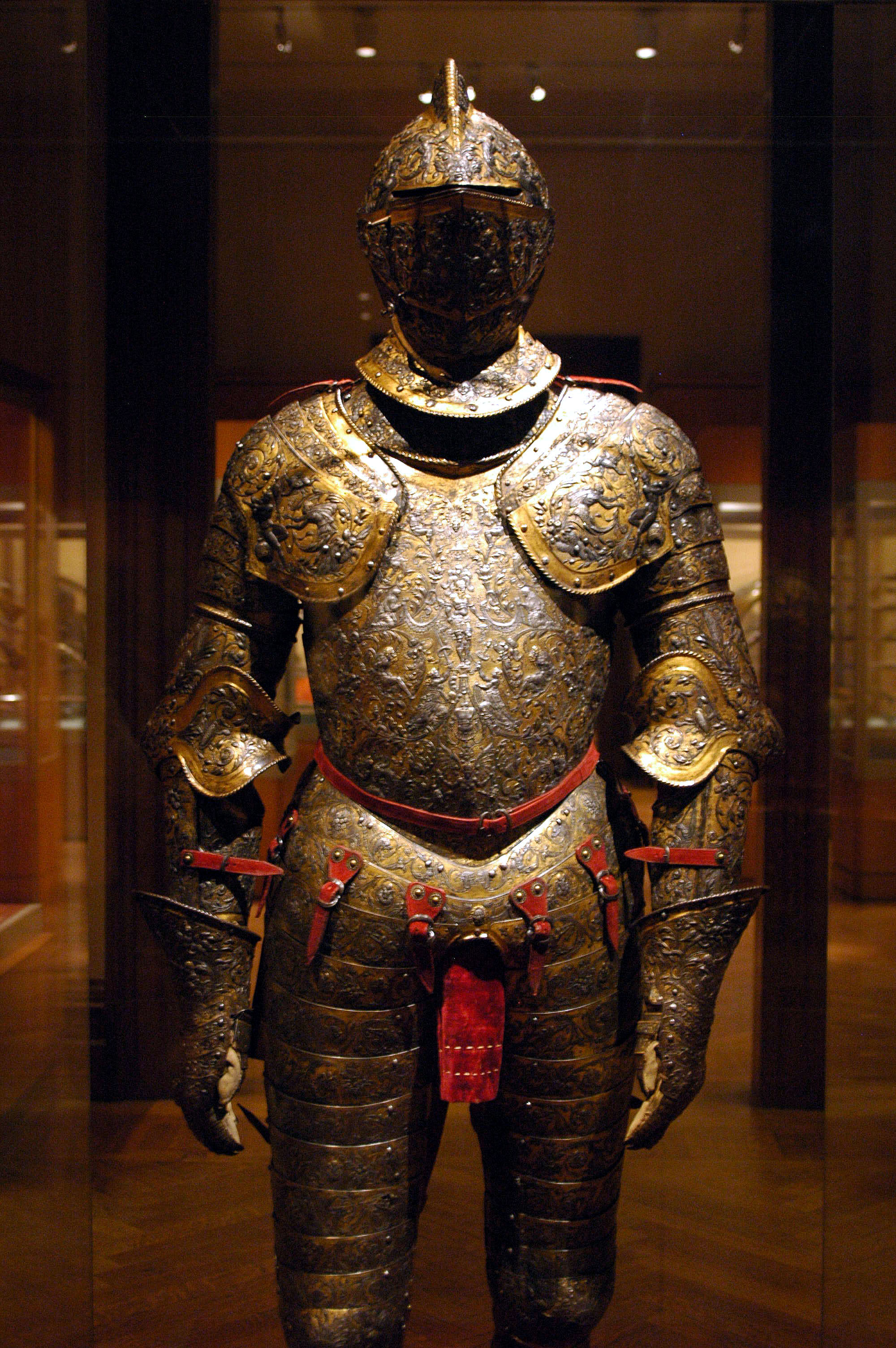 Etienne Delaune (1518/19–1583) Armor for Henry II of France, ca. 1555 French (Paris) Steel; Ht. overall 74 inches (187.96 cm) The Metropolitan Museum of Art, New York, Harris Brisbane Dick Fund, 1939 (39.121) View at the Metropolitan Museum of Art website Wikipedia Loves Art at the Metropolitan Museum of Art This photo of item # 39.121 at the Metropolitan Museum of Art was contributed under the team name "Futons_of_Rock" as part of the Wikipedia Loves Art project in February 2009. Metropolitan Museum of Art The original photograph on Flickr was taken by AlkaliSoaps—please add a comment to the original Flickr page whenever a use has been made on Wikipedia or another project. Project galleries on Flickr: this institution, this team